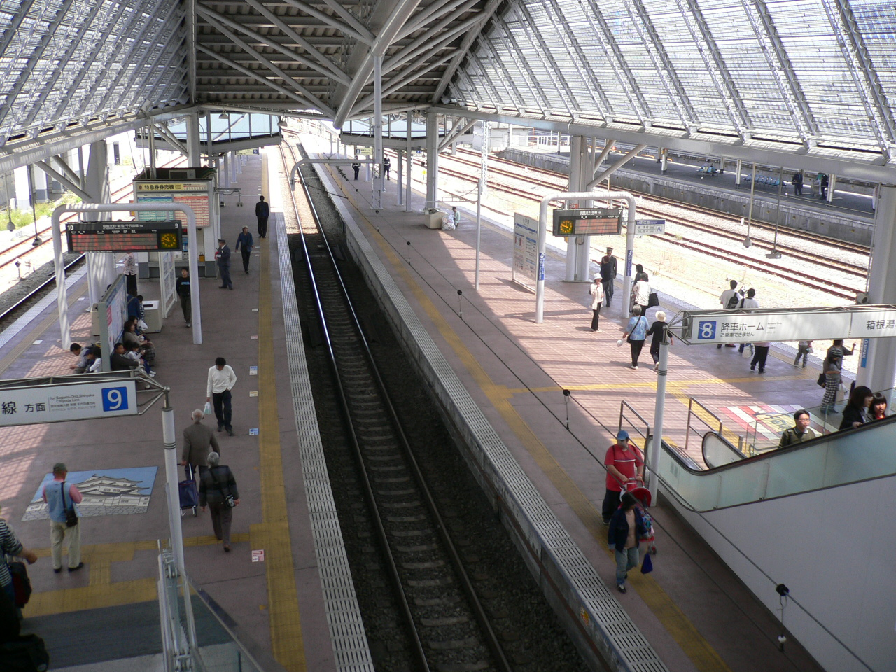 Odawara Station (Odawara Station), Odawara C, Kanagawa P.